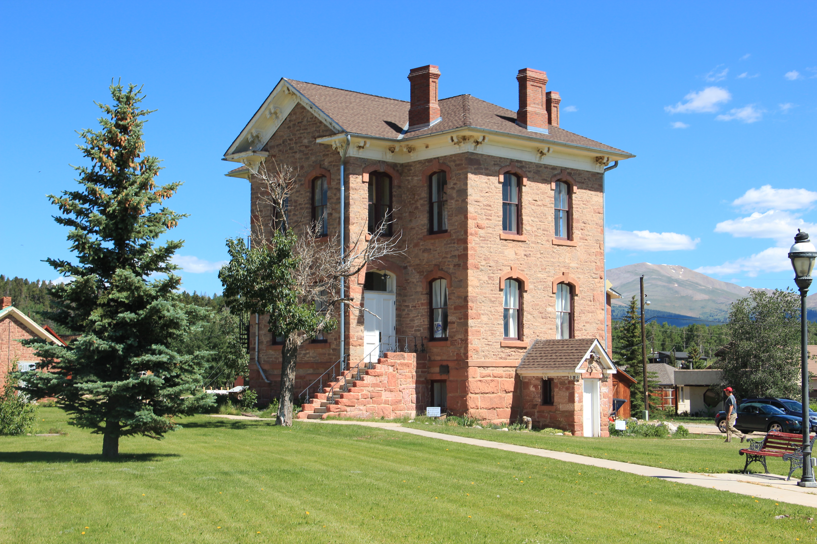 Park County Courthouse in July 2016